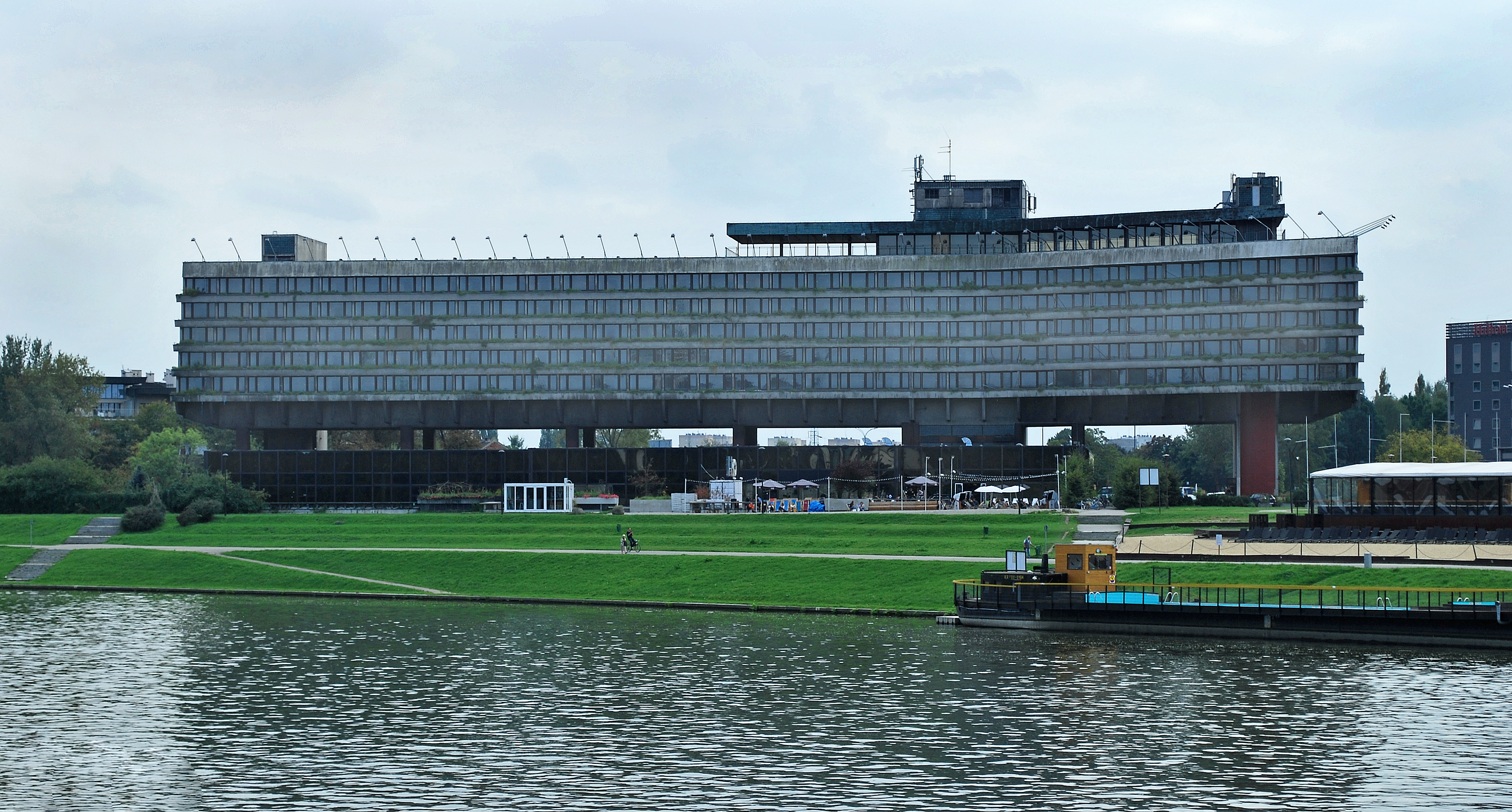 Former Forum Hotel, 28 Konopnickiej street, Kraków, Poland